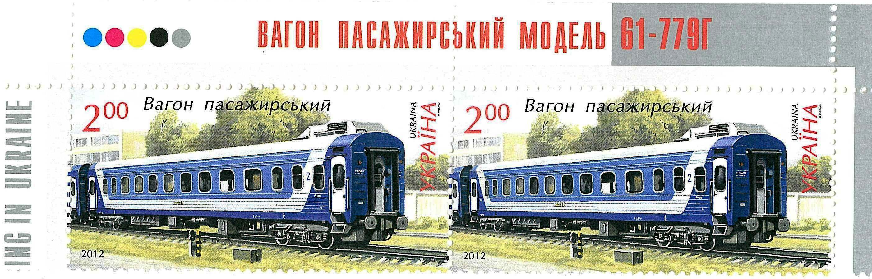 Two stamps. Passenger wagon 61-779G, Ukraine stamps, 2012.